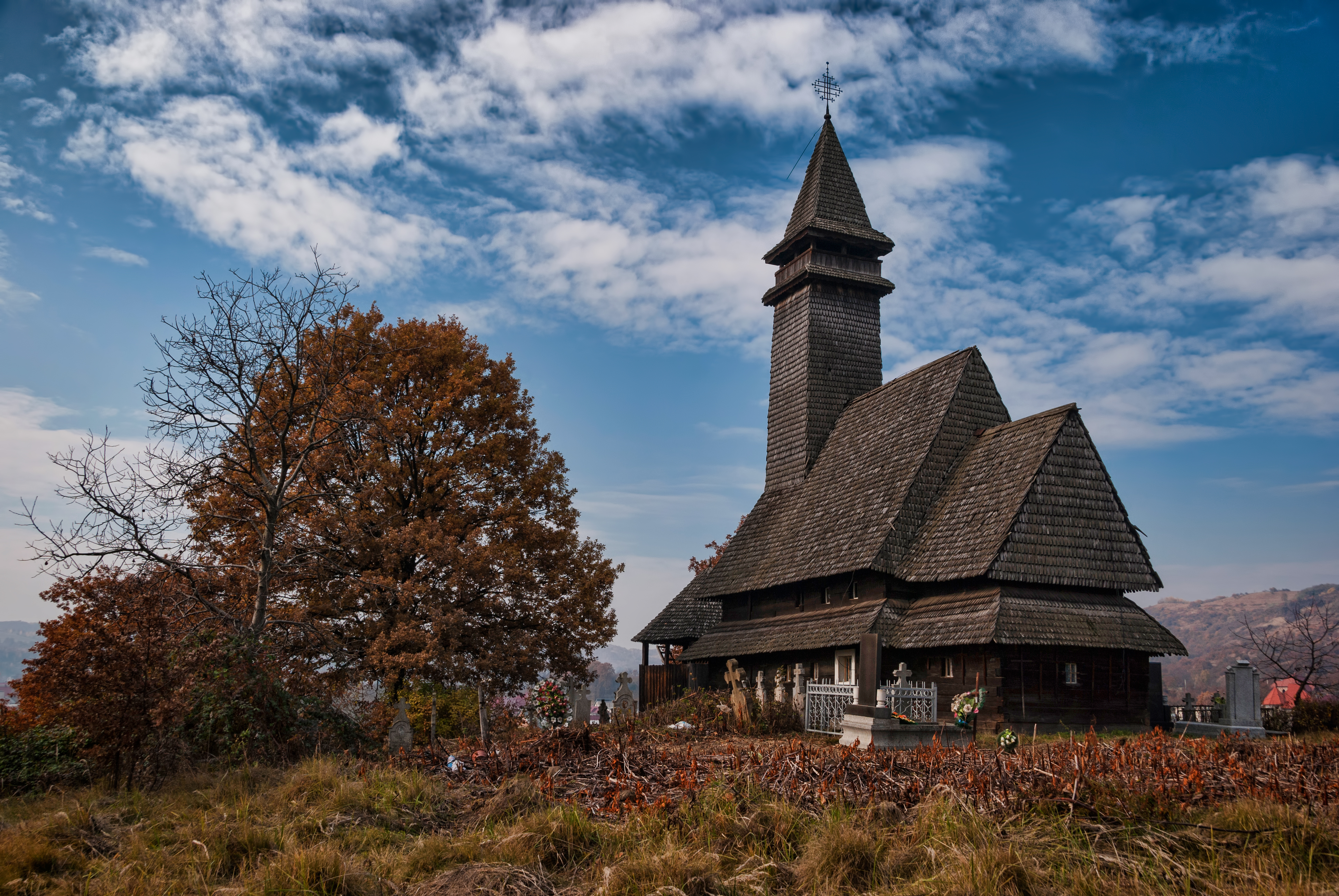 Wooden St. Mykola's Church (the upper one) of XV century (architectural monument of national significance № 208). Zakarpattya region, Serednye Vodyane village